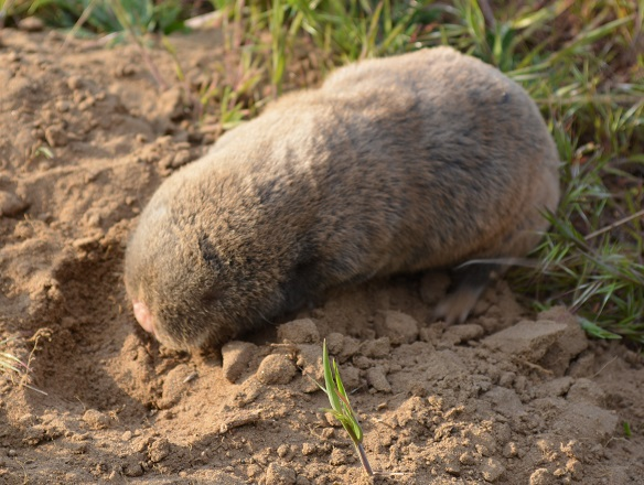 Lesser mole rat (Spalax leucodon) superspecies, Eastern Hungary, 17. 04. 2014.